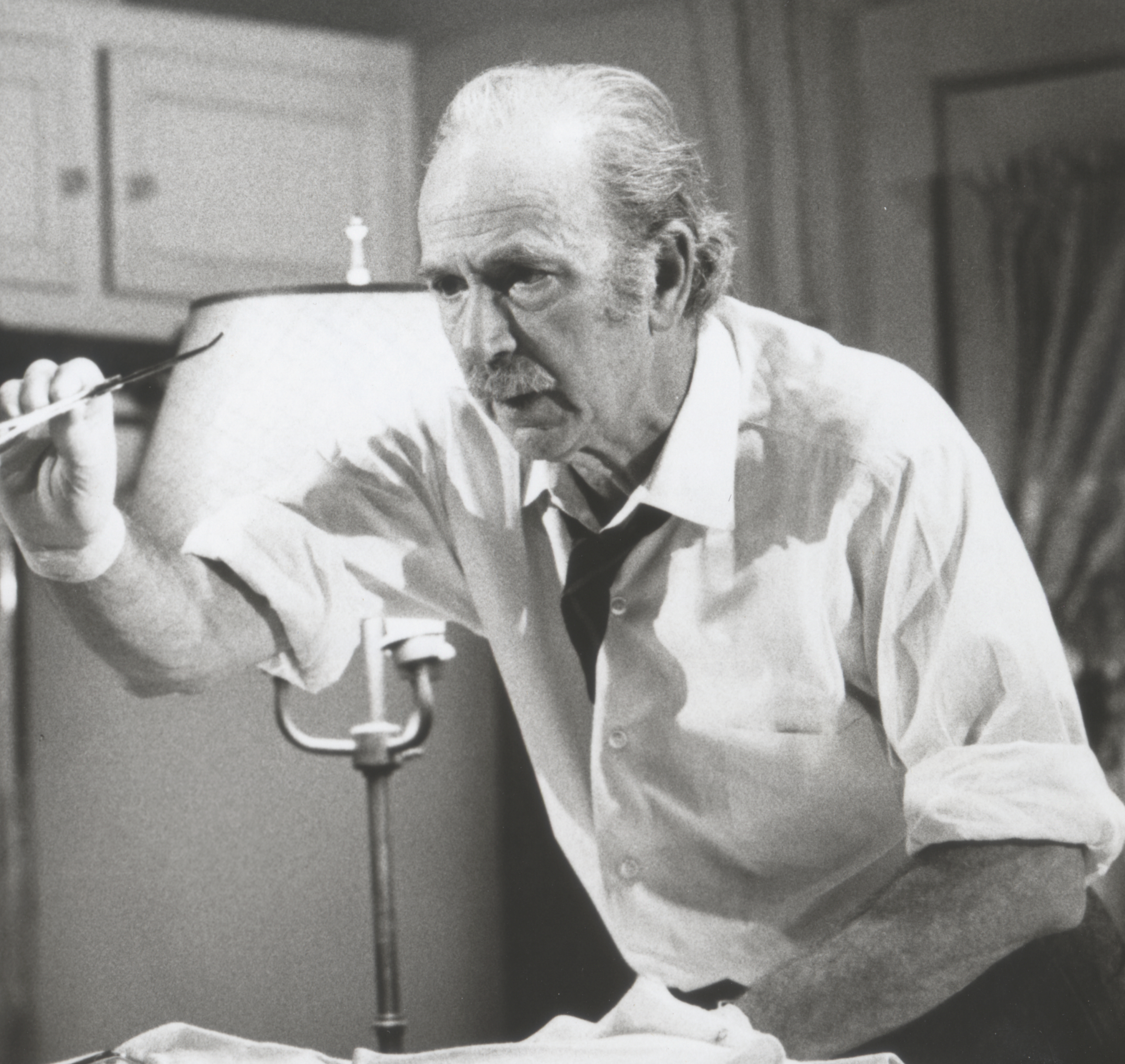 "Publicity photograph taken on the production set of The Sad and Lonely Sundays, a second unsold pilot of the abandoned medical drama television project The Oath. Pictured [… is] Jack Albertson, who appeared in Willy Wonka and the Chocolate Factory. In the press release information, this presentation was supposed to air on Thursday, August 26, 1976, and Albertson's name was circled."